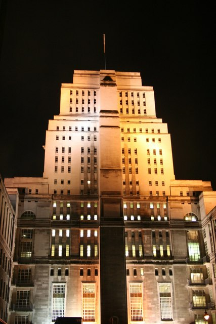 Senate House Grand Art Deco headquarters of the University of London